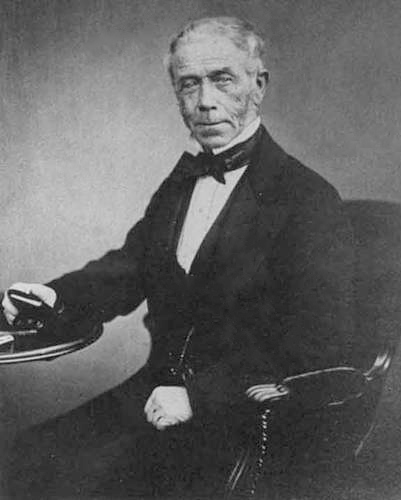 Photograph of Thomas Maclear on the receipt of his knighthood, 1860.